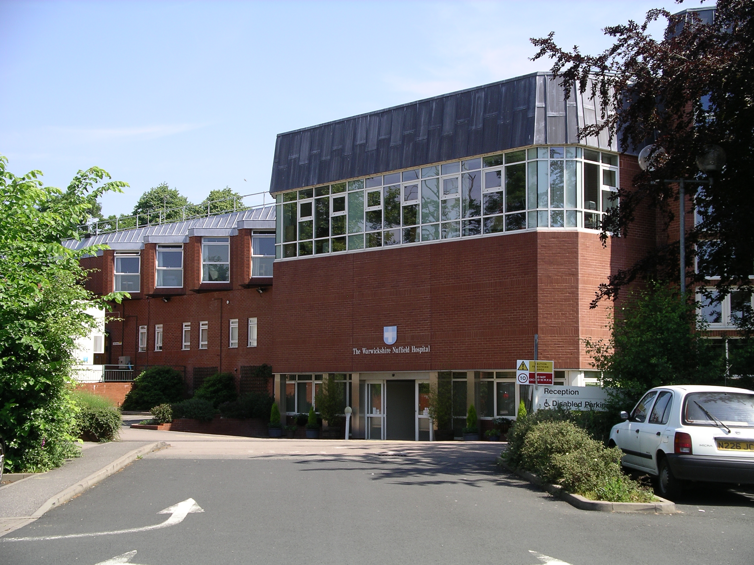 Warwickshire Nuffield Hospital, a private hospital in Warwickshire, England. The building shown was opened on 22 September 2000.